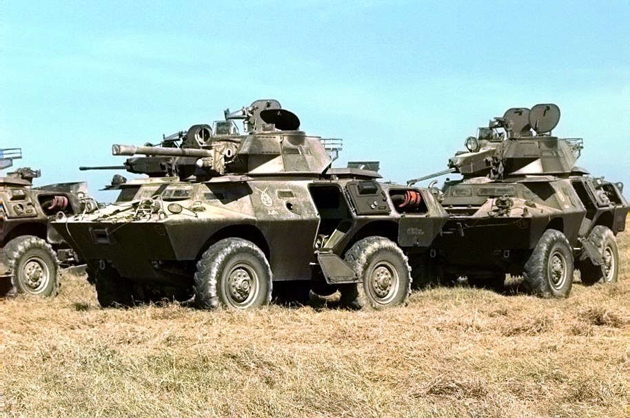 Several 90mm and 20mm gunned V150 Cadillac Gage Commando armoured cars at the Port au Prince airport. This is part of the artillery confiscated by the U.S. from the Haitian Army during Operation Uphold Democracy.